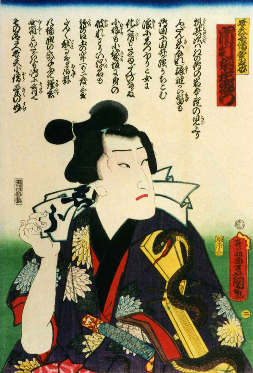 “Hazaemon Ichimura XIII (= Kikugorō Onoe V) as Benten-kozō Kikunosuke” by Toyokuni Utagawa III